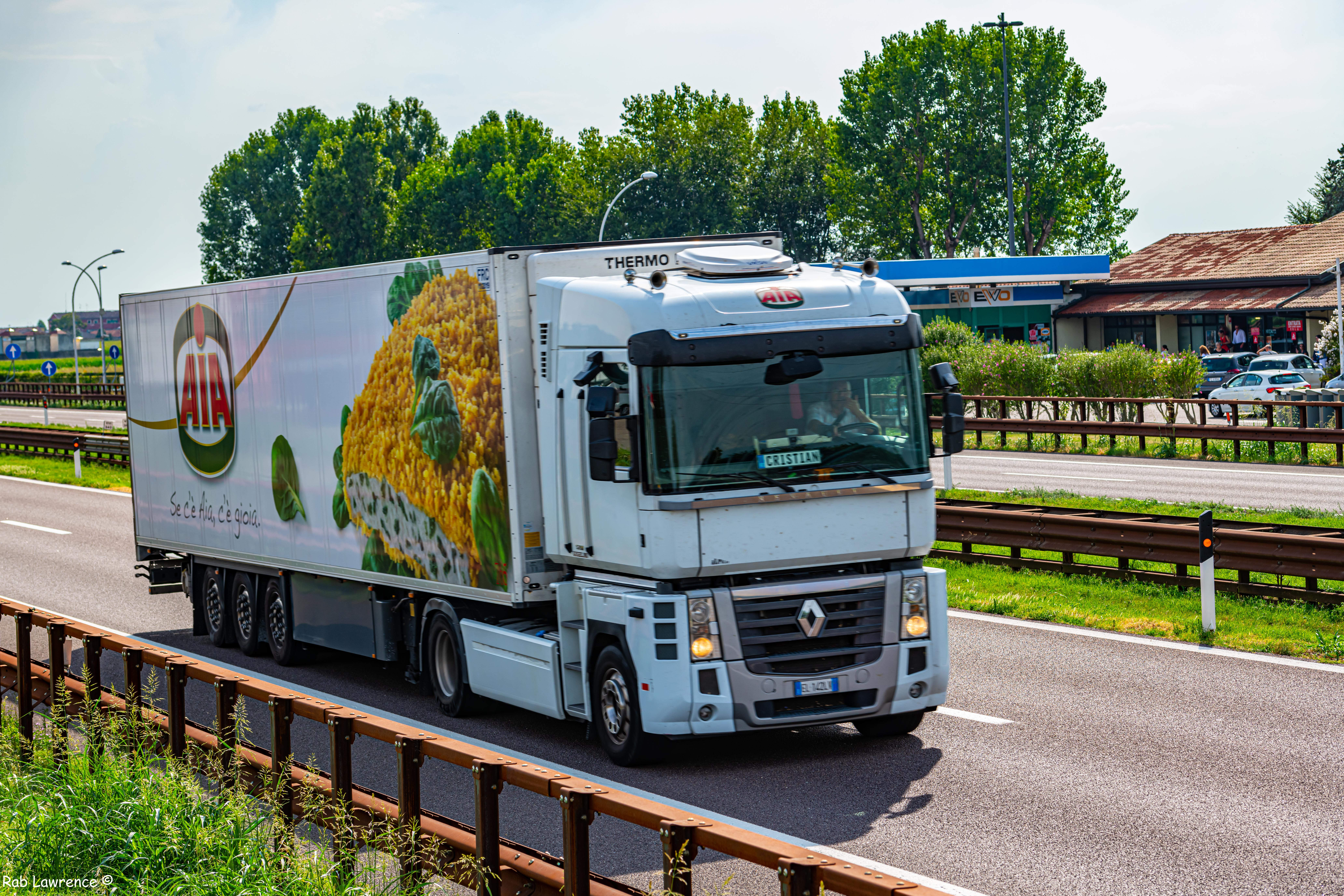 Truck Spotting in Italy Between Modena & Verona - AIA